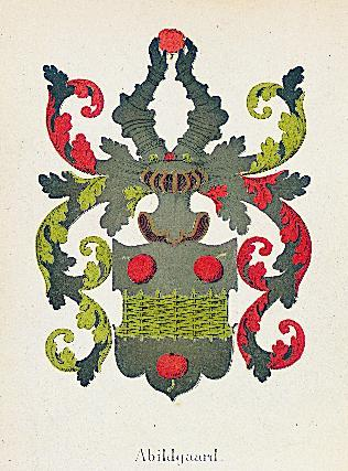 Coat of arms of the noble family Abildgaard (extinct 1705)